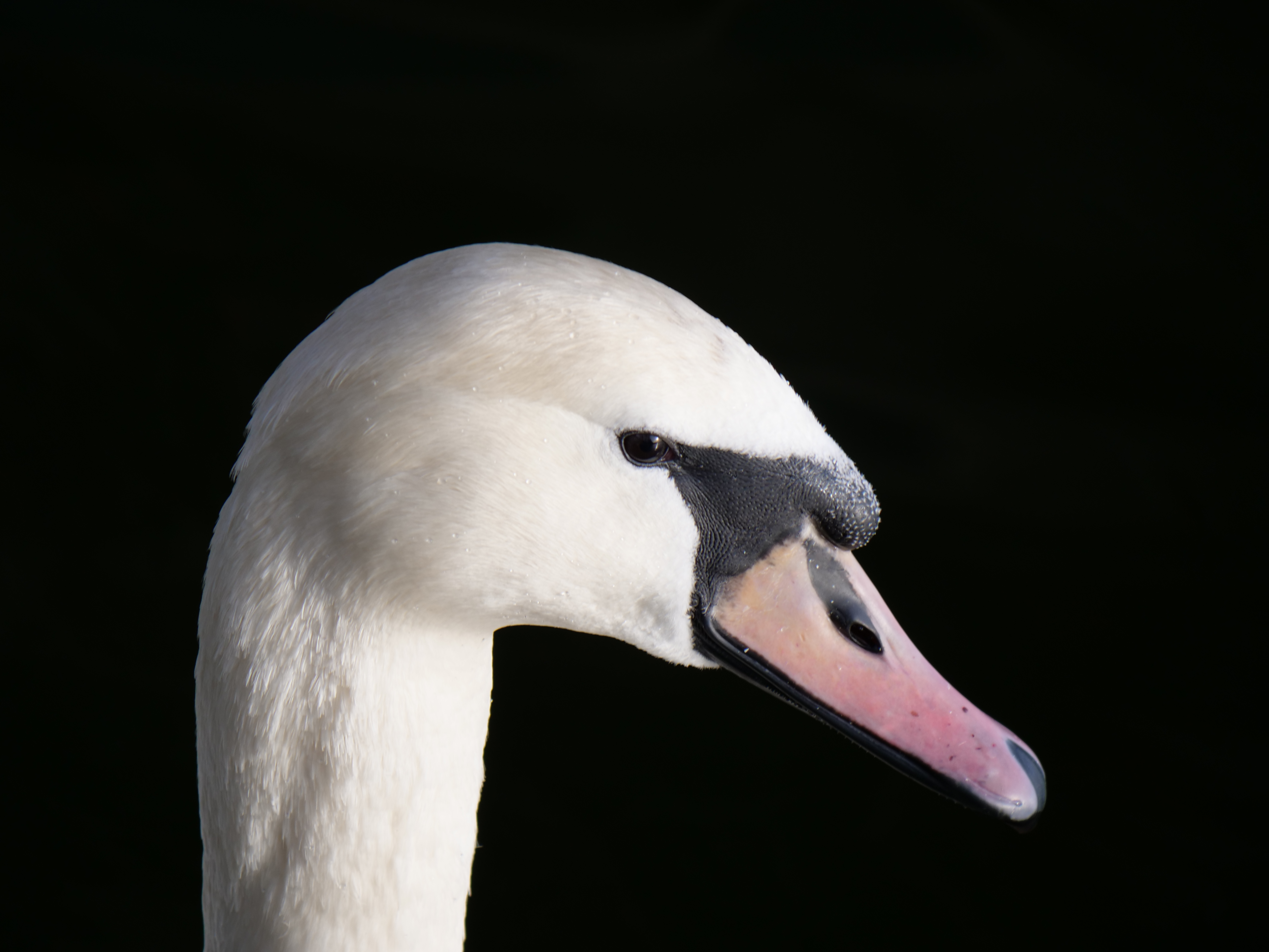 Head of a Mute swan(Cygnus olor) from right.